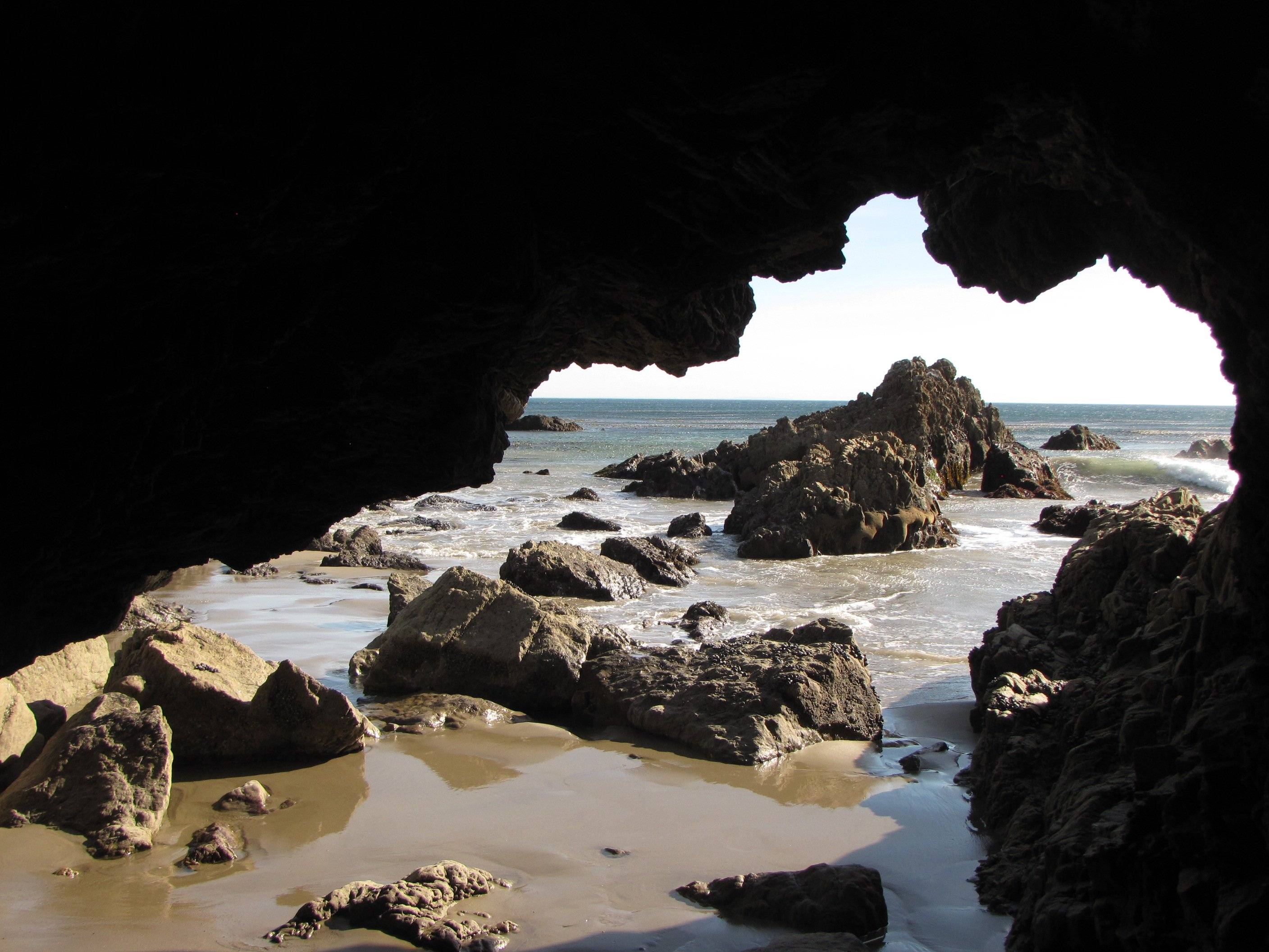 Cave and rock formations at Leo Carrillo State Park — within the Santa Monica Mountains National Recreation Area, Southern California.